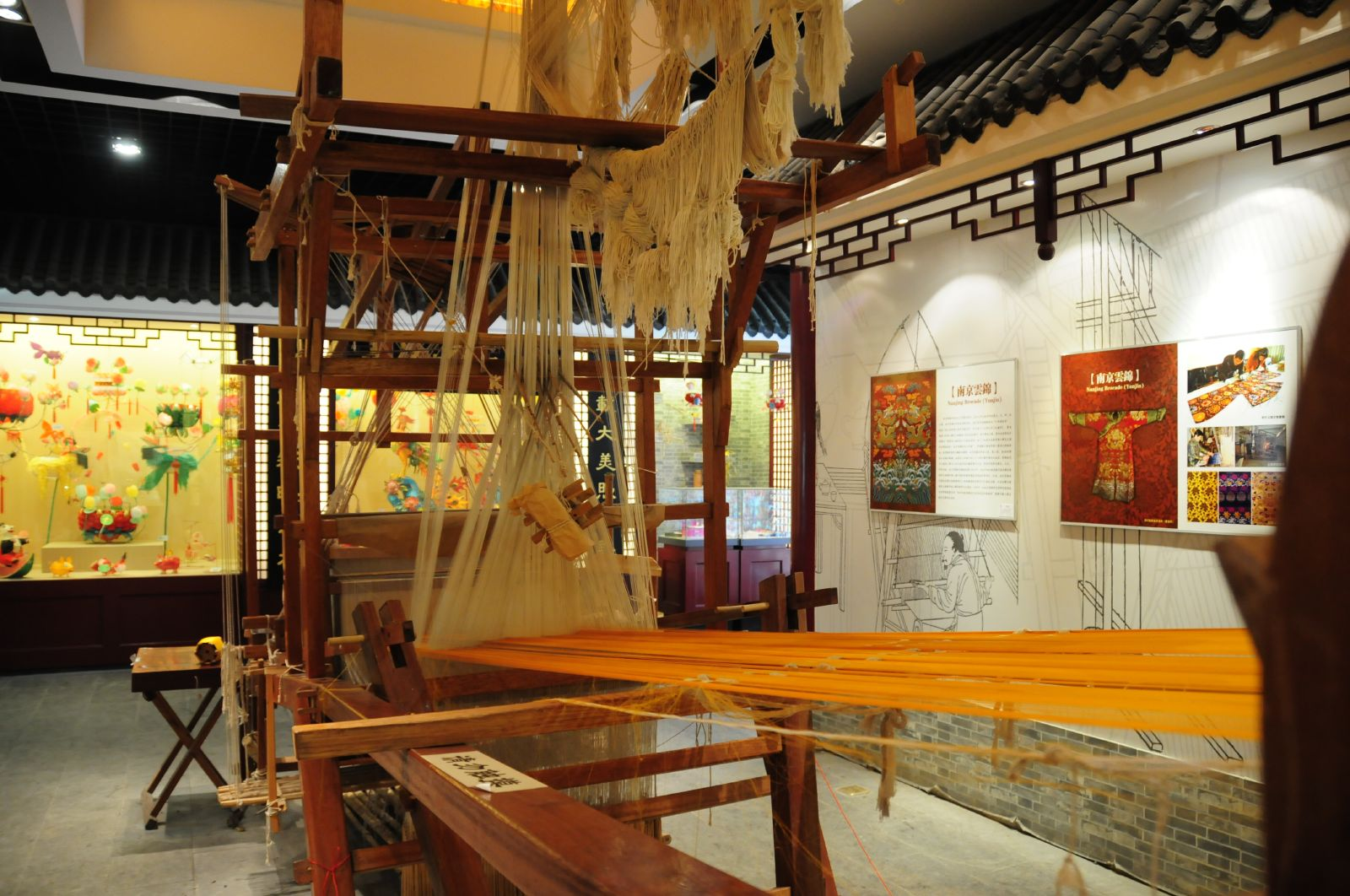 A loom for weaving Nanjing Brocade, probably taken in Nanjing City Museum